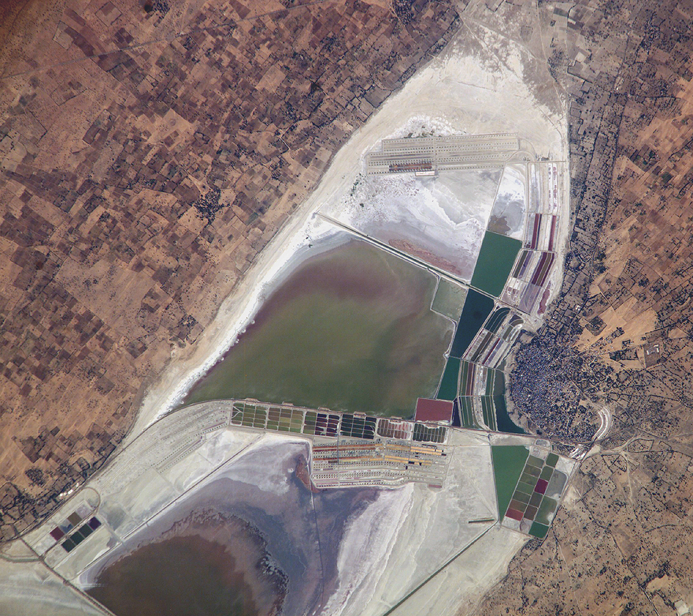 This image, taken by astronauts aboard the International Space Station, shows Lake Sambhar’s eastern saltworks in detail. Today, they are operated by a joint venture between Hindustan Salts and the Government of Rajasthan. East of the dam is a railroad, built by the British (before India’s independence) that provides access from Sambhar Lake City to the salt works.